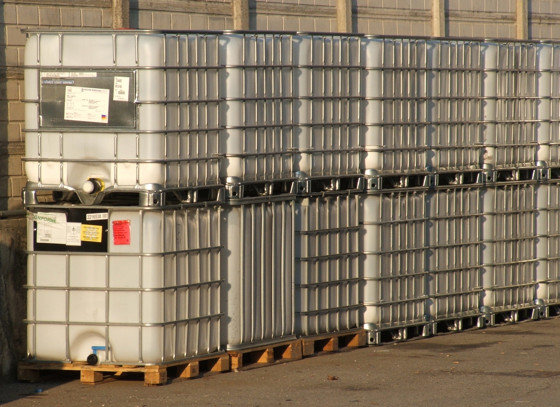 Empty Intermediate Bulk Container